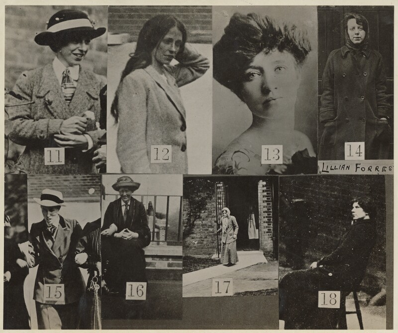 An image created by the United Kingdom's Criminal Record Office and then made available at the UKs National Portrait Gallery. These date from c.1914 when the suffragettes had an arson campaign before WW1. In no order: 11. Mary Raleigh Richardson 12. Lilian Lenton (1891-1972), 13. Kitty Marion (Katherina Maria Schafer) (1871-1944) 14. Lillian Forrester (born 1880), 15. Miss Johansson 16. Clara Elizabeth Giveen (born 1887), 17. Jennie Baines (1866-1951), 18. Miriam Pratt (born 1890?)